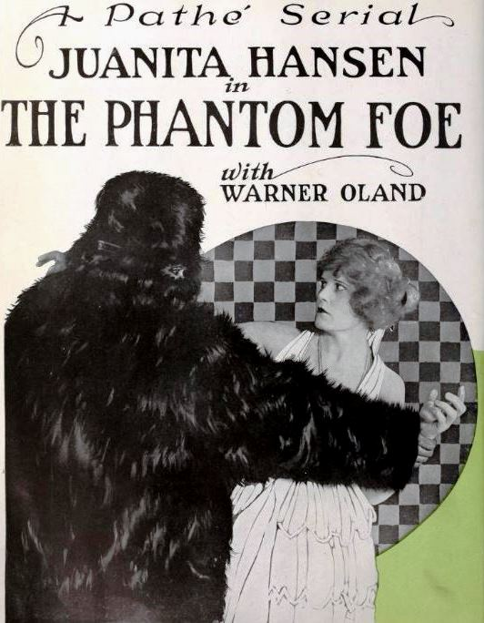 Advertisement for the American film serial The Phantom Foe (1920) with Juanita Hansen, first page of a 2 page ad, from the insert after page 18 of the September 18, 1920 Exhibitors Herald.